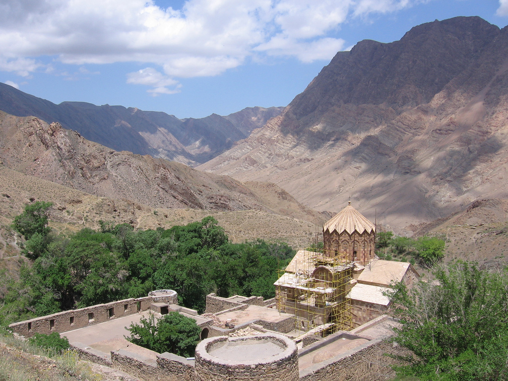 Saint Stepanous Cathedral